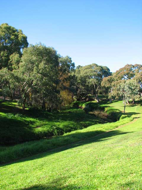 Torrens Linear Park, Adelaide, South Australia